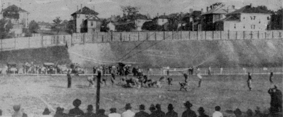 1916 football game. Tech is on the left.